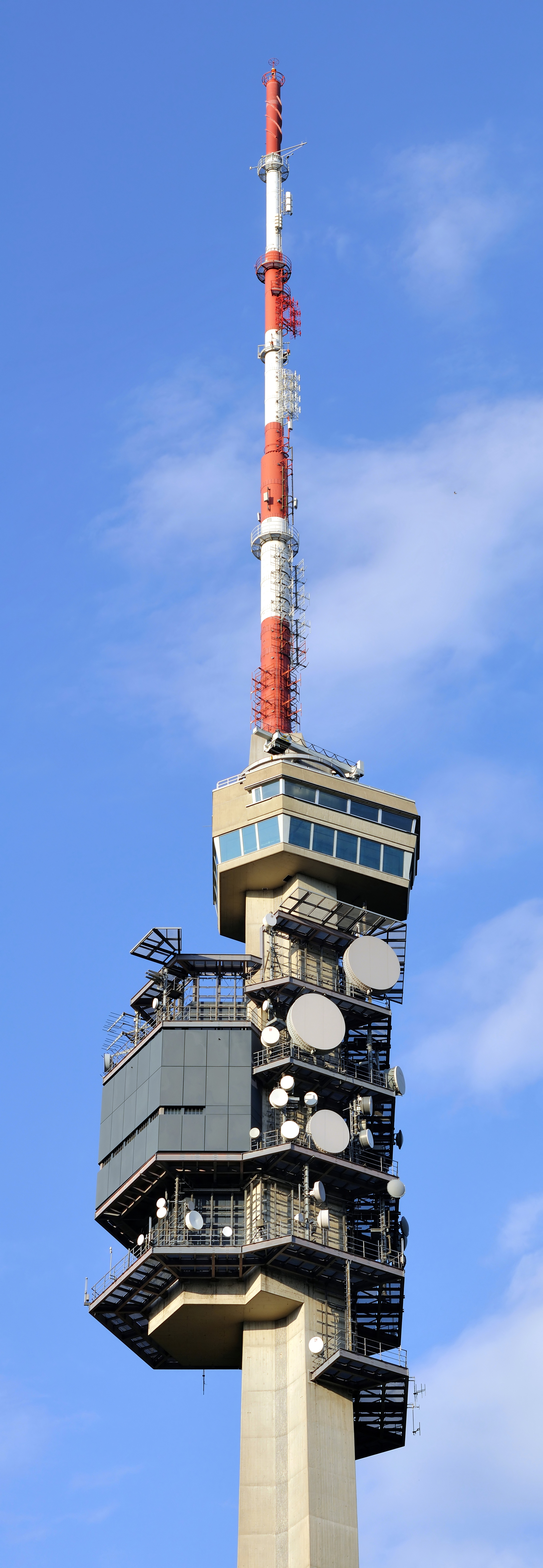 Bettingen: St. Chrischona Television Tower